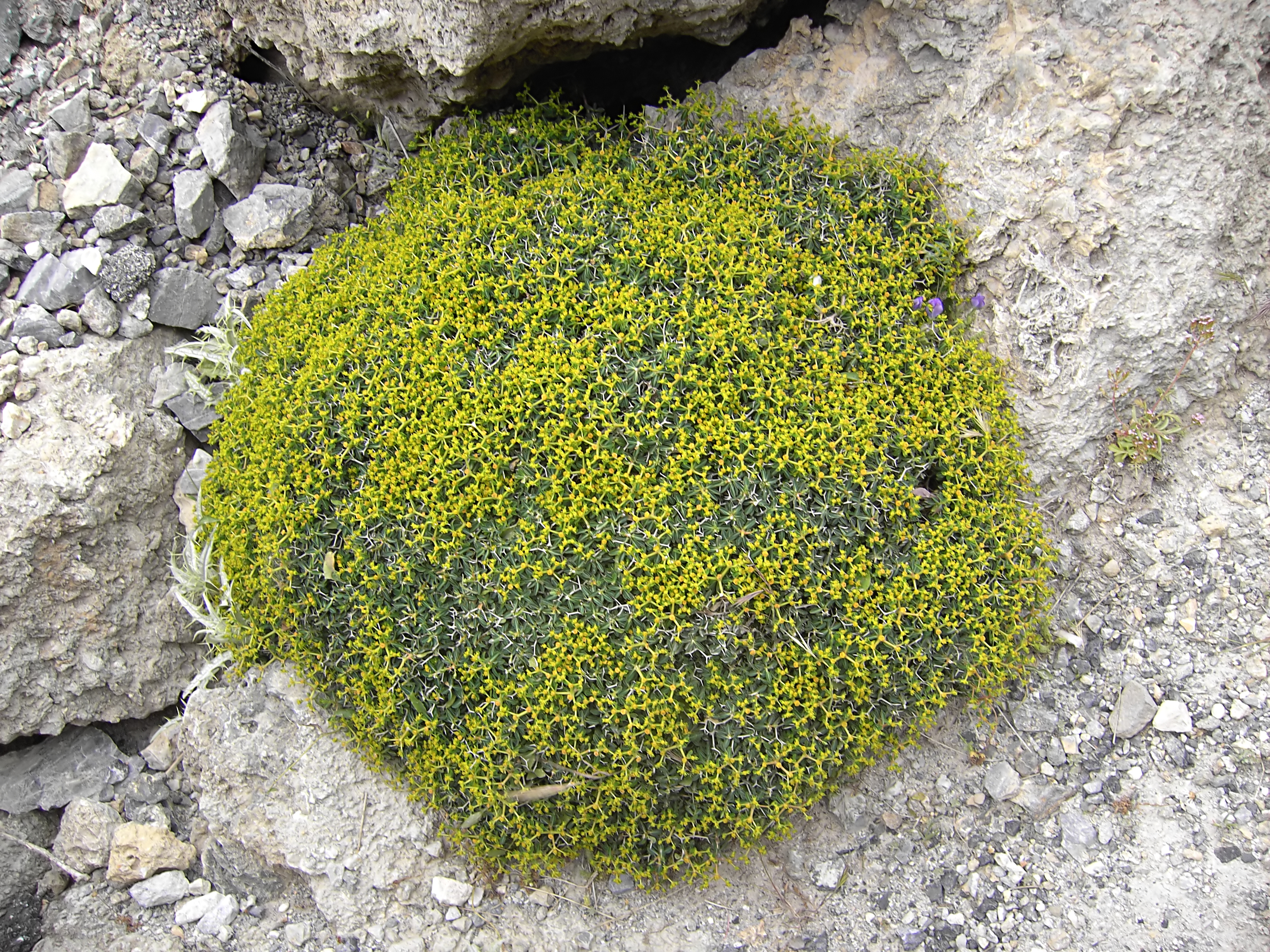 Greek Spiny Spurge, Crete